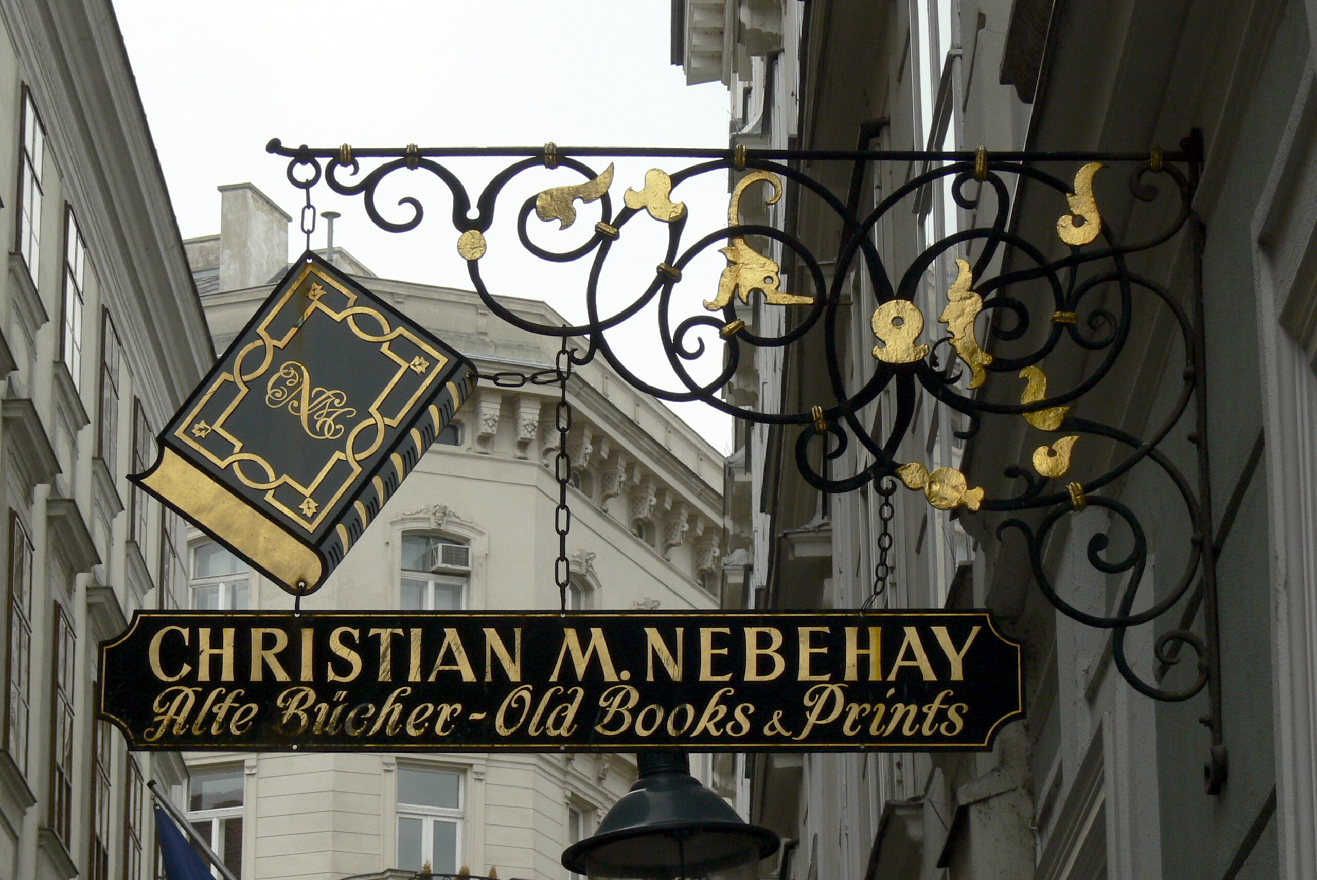 Sign bracket with bookshop sign: Christian M. Nebehay. Alte Bücher - Old Books & Prints, Annagasse, Vienna, Austria